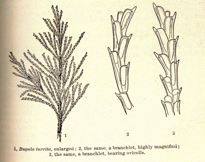 1. Bugula turrita... 2. the same, a branchlet... 3. the same, a branchet bearing ovicells Subject: Bugula Tag: Invertebrates